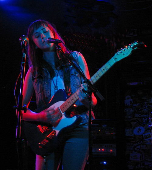 Holly Miranda on stage at The Saint in Asbury Park, NJ on June 10, 2015.